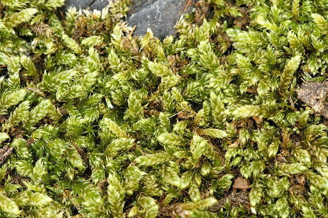 Picture taken in Commanster, Belgian High Ardennes . Species: Hypnum cupressiforme